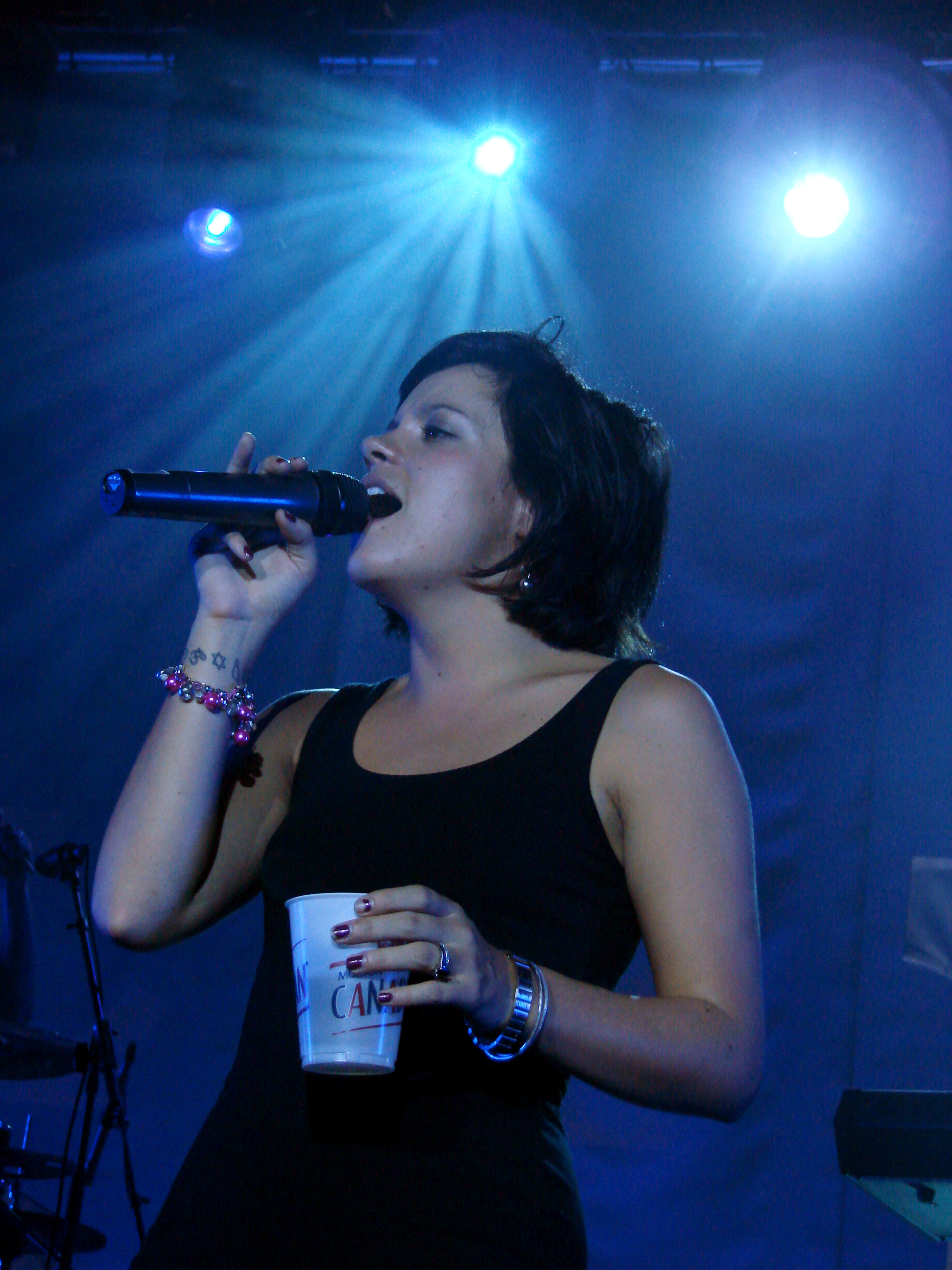 Lily Allen at Sound Academy in Toronto, Canada, on April 22, 2009.